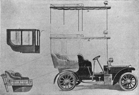 The image is from an article in the cited journal (Vol 10, no 25; 6-18-1904) on the Dyke-Britton 20hp Combination Car.